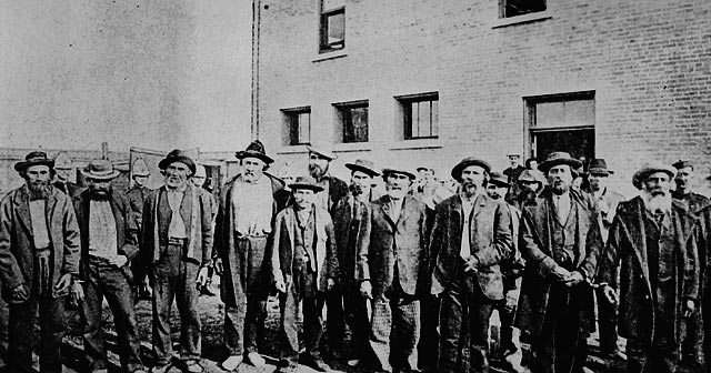 Métis and First Nations prisoners following the North-West Rebellion, August, en:1885. (L-R): Ignace Poitras, Pierre Parenteau, Baptiste Parenteau, Pierre Gariepy, Ignace Poitras Jr., Albert Monkman, Pierre Vandal, Baptiste Vandal, Joseph Arcand, Maxime Dubois, James Short, Pierre Henry, Baptiste Tourond, Emmanuel Champagne, Kit-a-wa-how (Alex Cagen, ex-chief of the Muskeg Lake Indians)